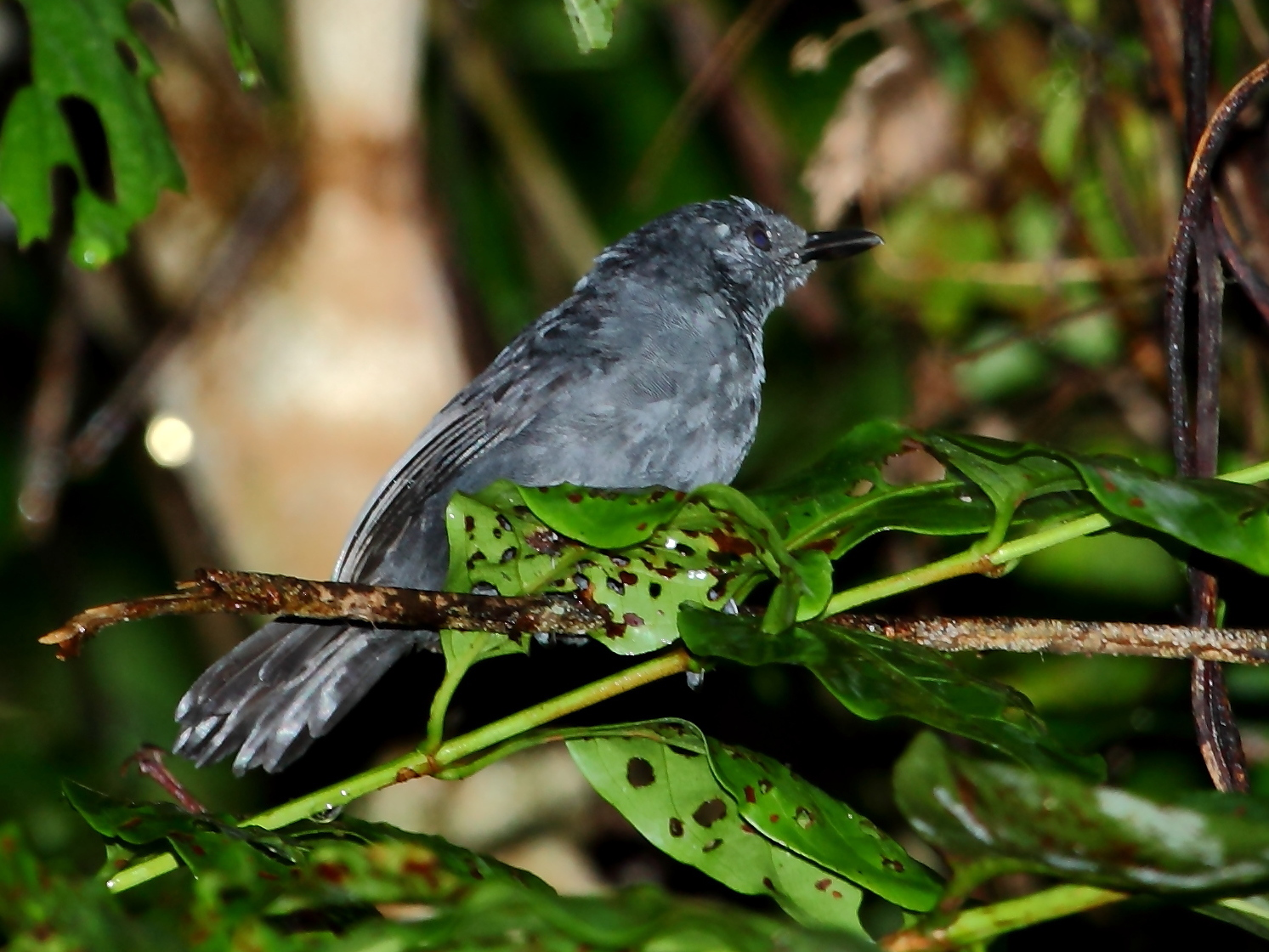 Blackish Antbird (male) at Apiacás - MT -Brazil